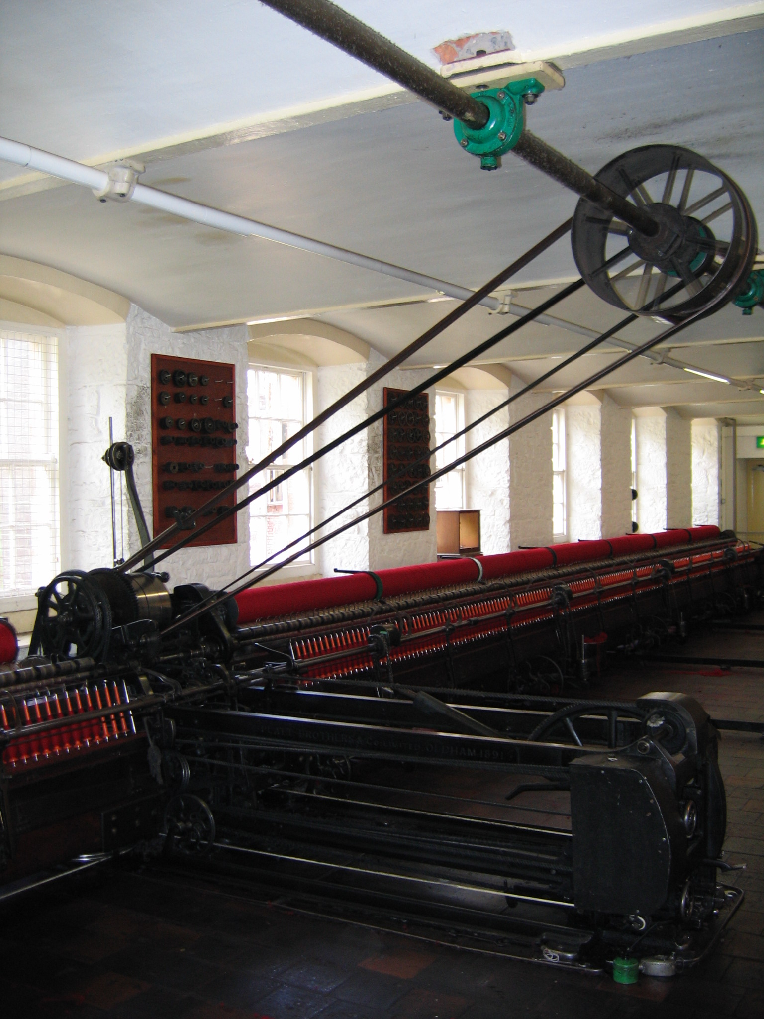 New Lanark machinery